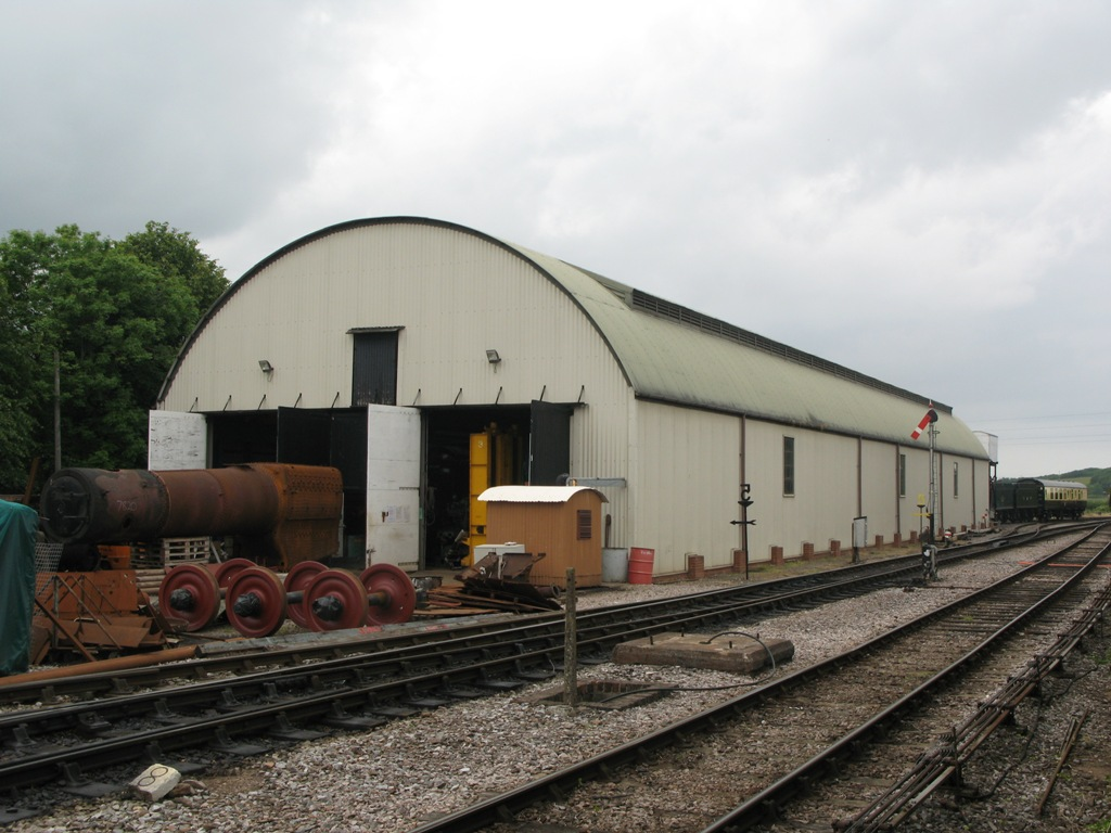 The "Swindon Shed" at Williton, Somerset, England. This corrugated iron structure used to be at Swindon railway works but has since been transferred to Williton where it provides a workshop where the West Somerset Railway Association undertakes heavy overhauls and restoration of steam locomotives and railway coaches.